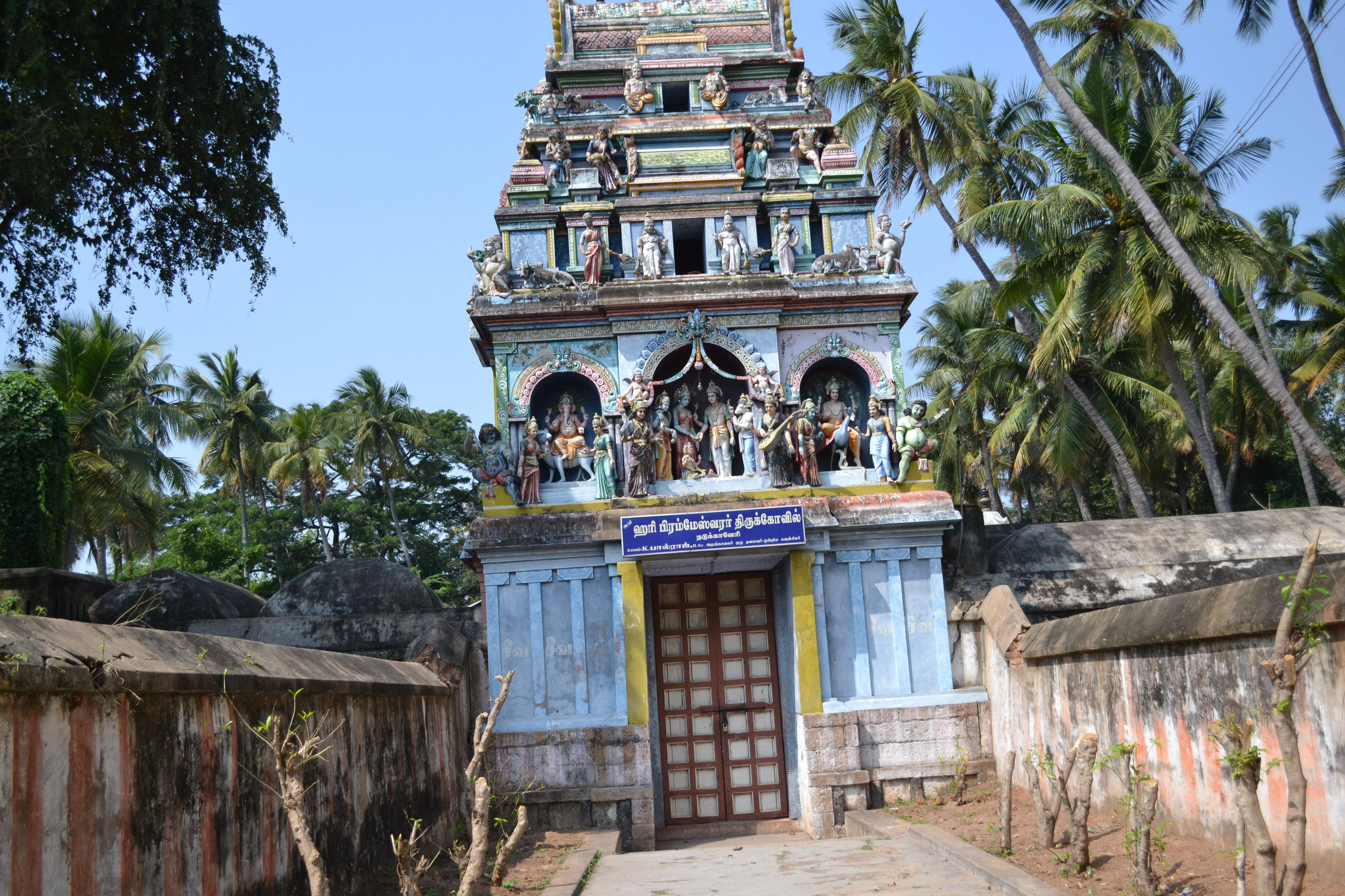 sivan koil